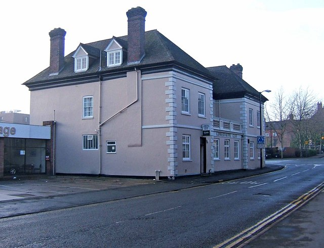 Conservative Club, Long Street. Licensed club on the corner of Long Street and Woolpack Way. Can accommodate up to 350 members. The building itself dates originally from the late 17th century, but was heavily altered and added to in the 19th century.1640520; 1640526.